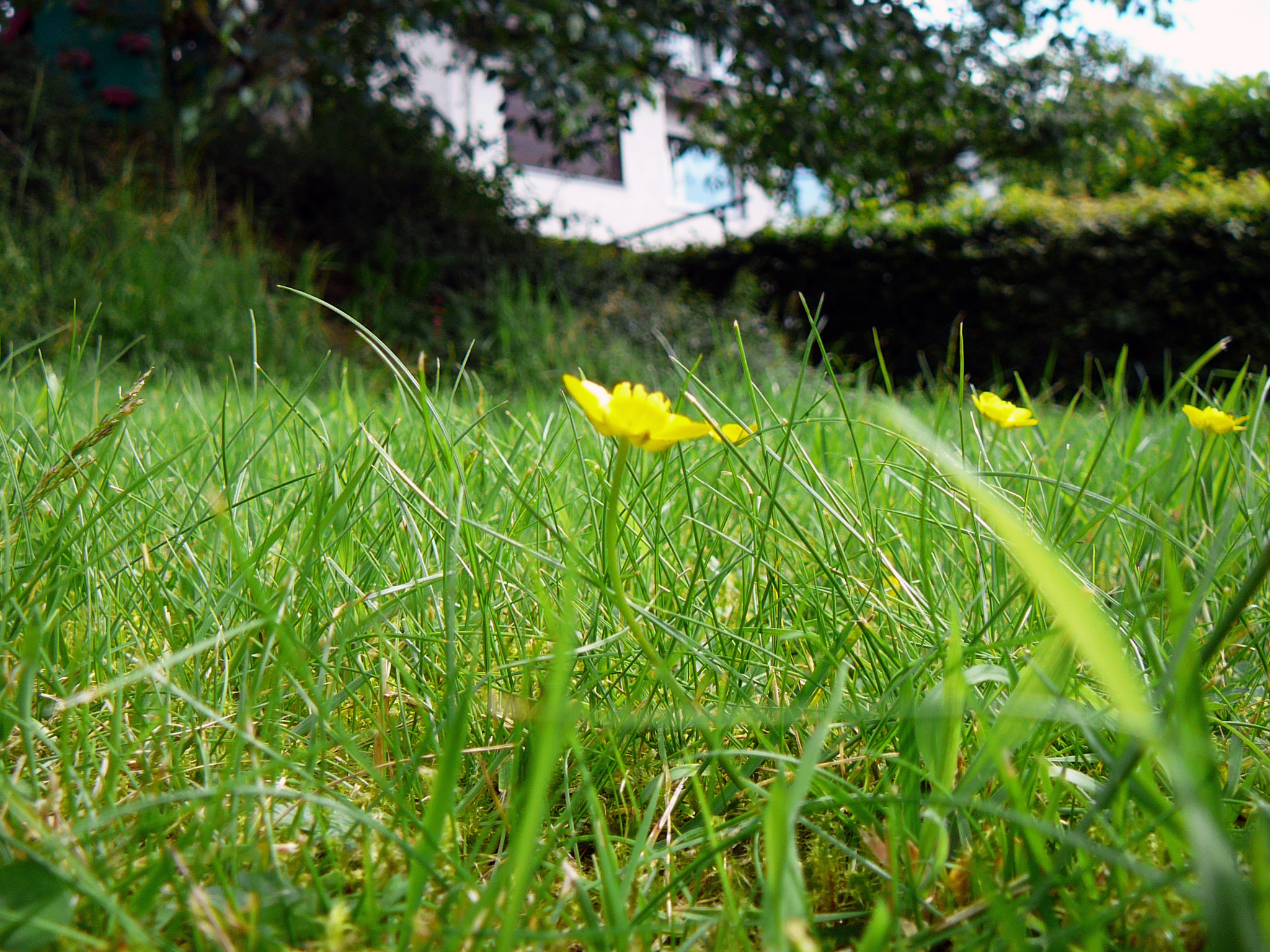 Grass , probably Poa pratensis